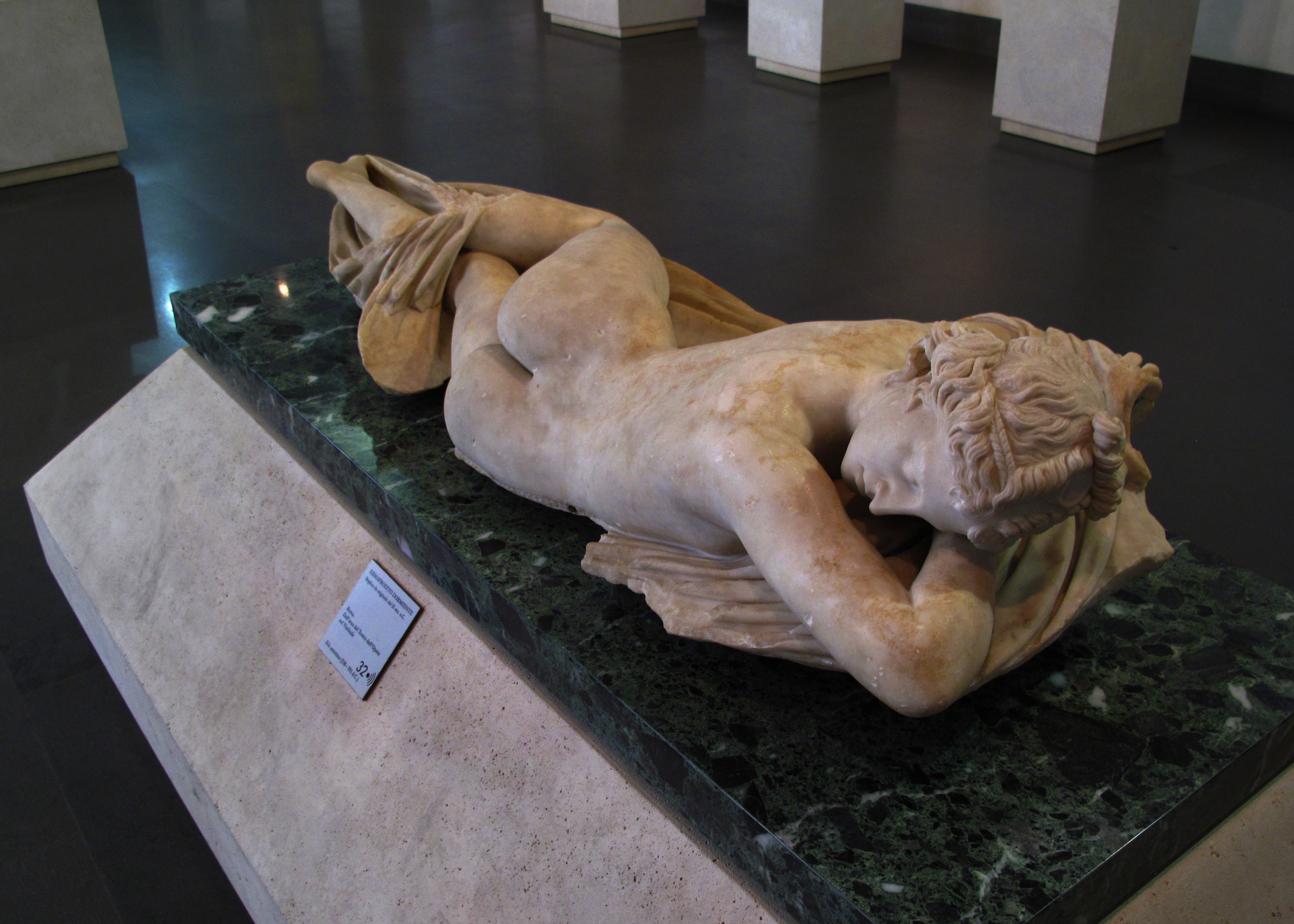 Sleeping Hermaphroditus, Second century CE replica of a second century BCE original, National Museum of Rome.